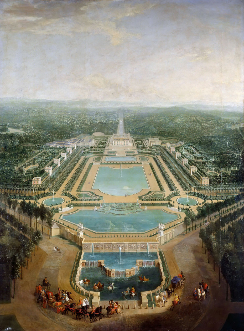 « General View of Chateau de Marly, seen from the watering pool » (1724) representing the Chateau de Marly in Marly-le-Roi, France